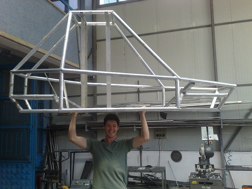 HU-GO's chassis weights only 24 kilograms and can be lifted up by one person.